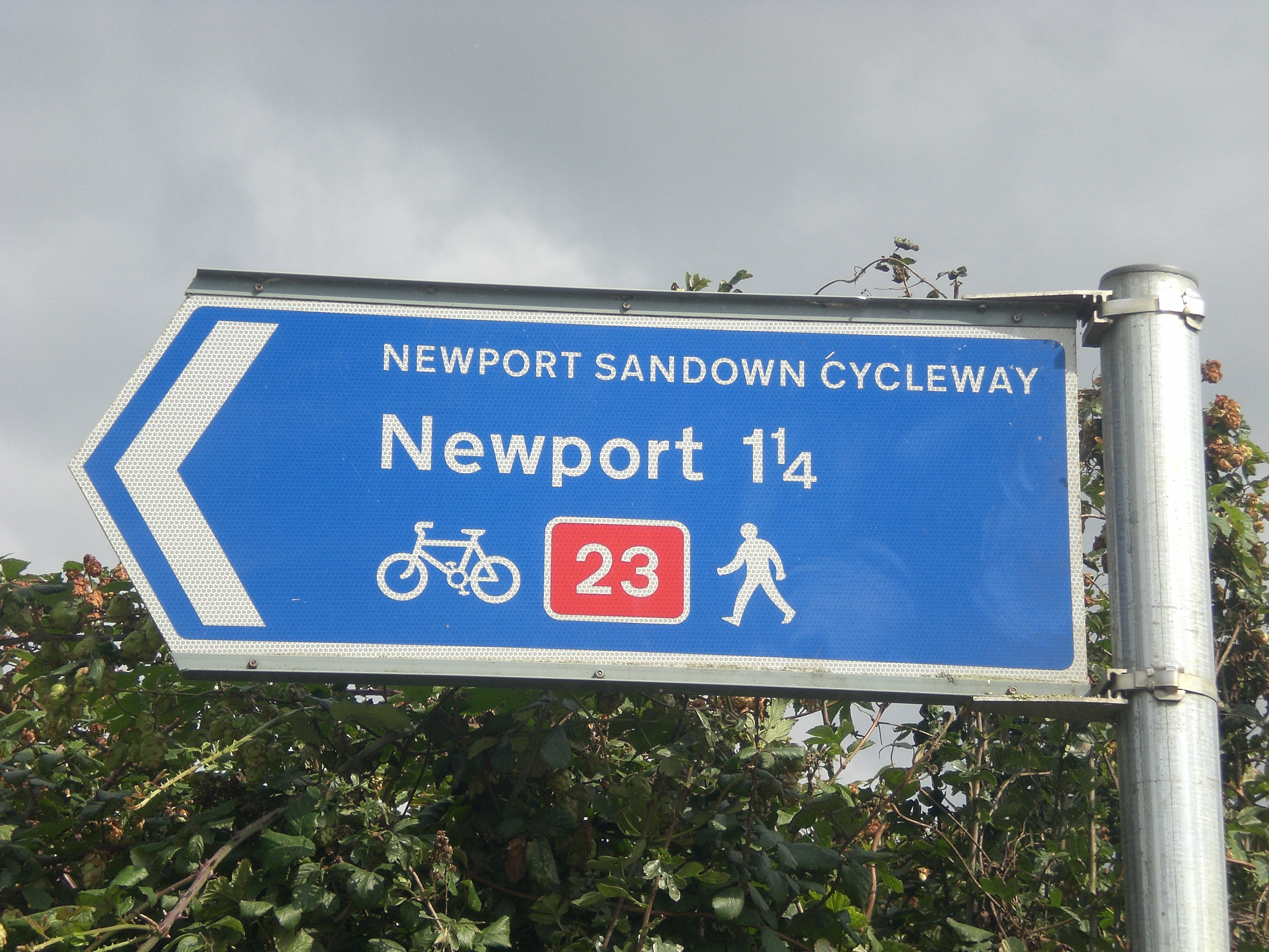 National Cycle Network route 23 sign to Newport.